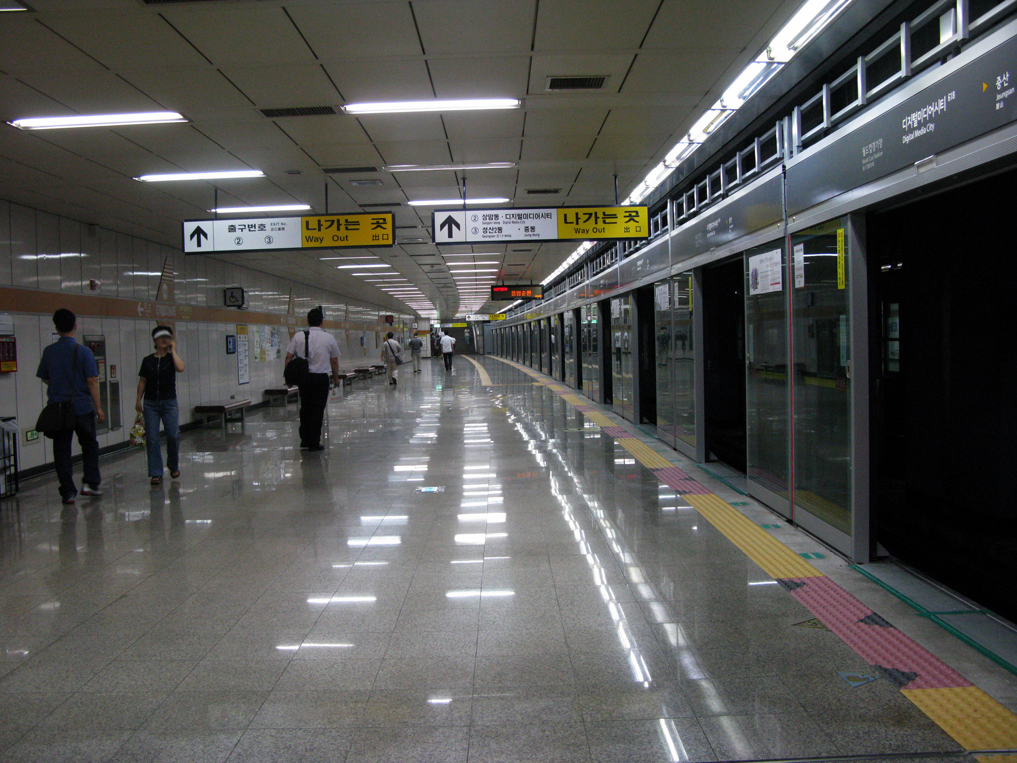 Seoul Subway Line 6 Digital Media City Station